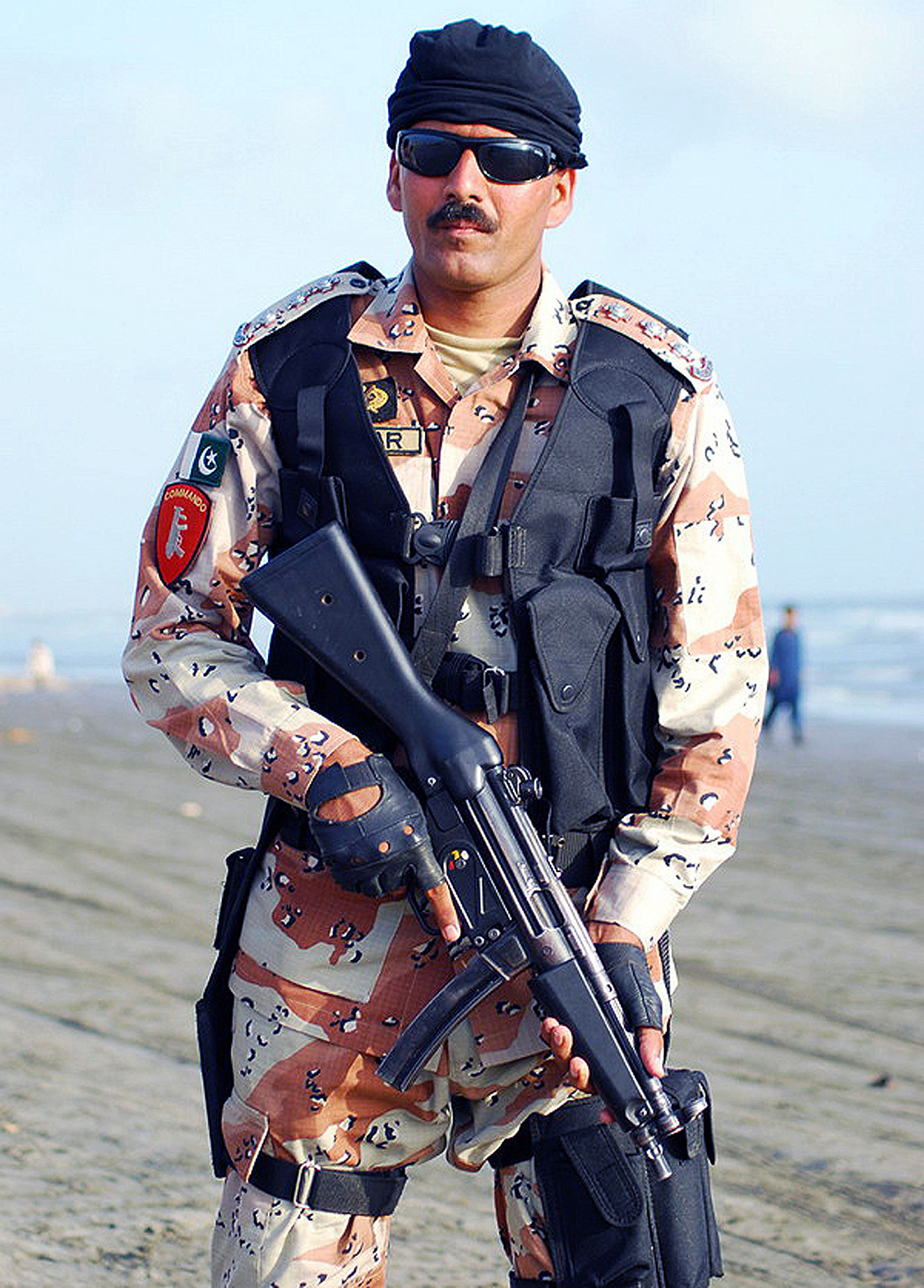 Pakistan Ranger in alert position